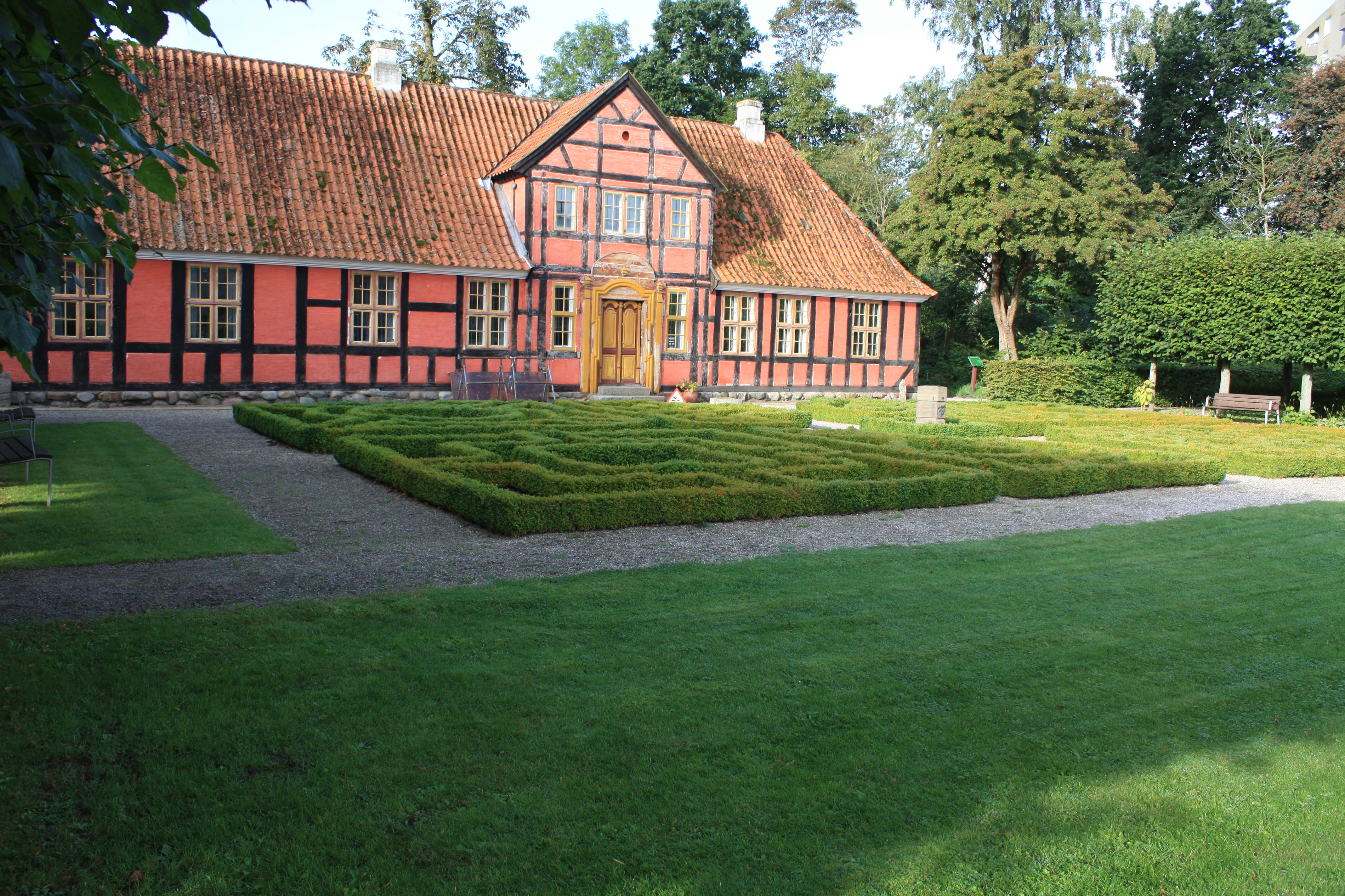 Fredericia Bymuseum seen from Jernbanegade